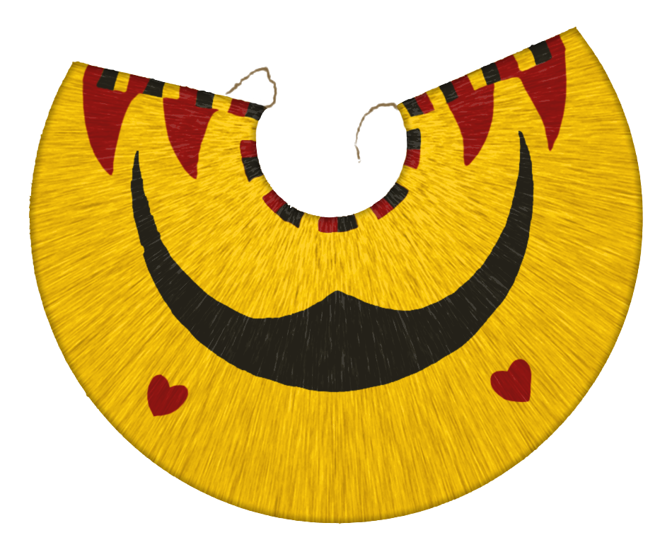 Fig. 105. Cape of ʻōʻō with black ʻōʻō crescent, four senncrescents and two cordate figures of ʻiʻiwi. Length, 16 inches; front, 10 inches. Frontal and cervical edging of red, black and yellow. This cape belonged to Honorable Levi Haʻalelea and was worn by him when on a mission to Europe. It is in fine preservation and is remarkable as the only piece of feather work from Hawaiian hands that bears any design similar to the hearts shown in the figure. This, with the two succeeding numbers, is in the possession of Mrs, A. A, Haʻalelea, of Honolulu, who kindly placed them at my disposal for examination and photographing.